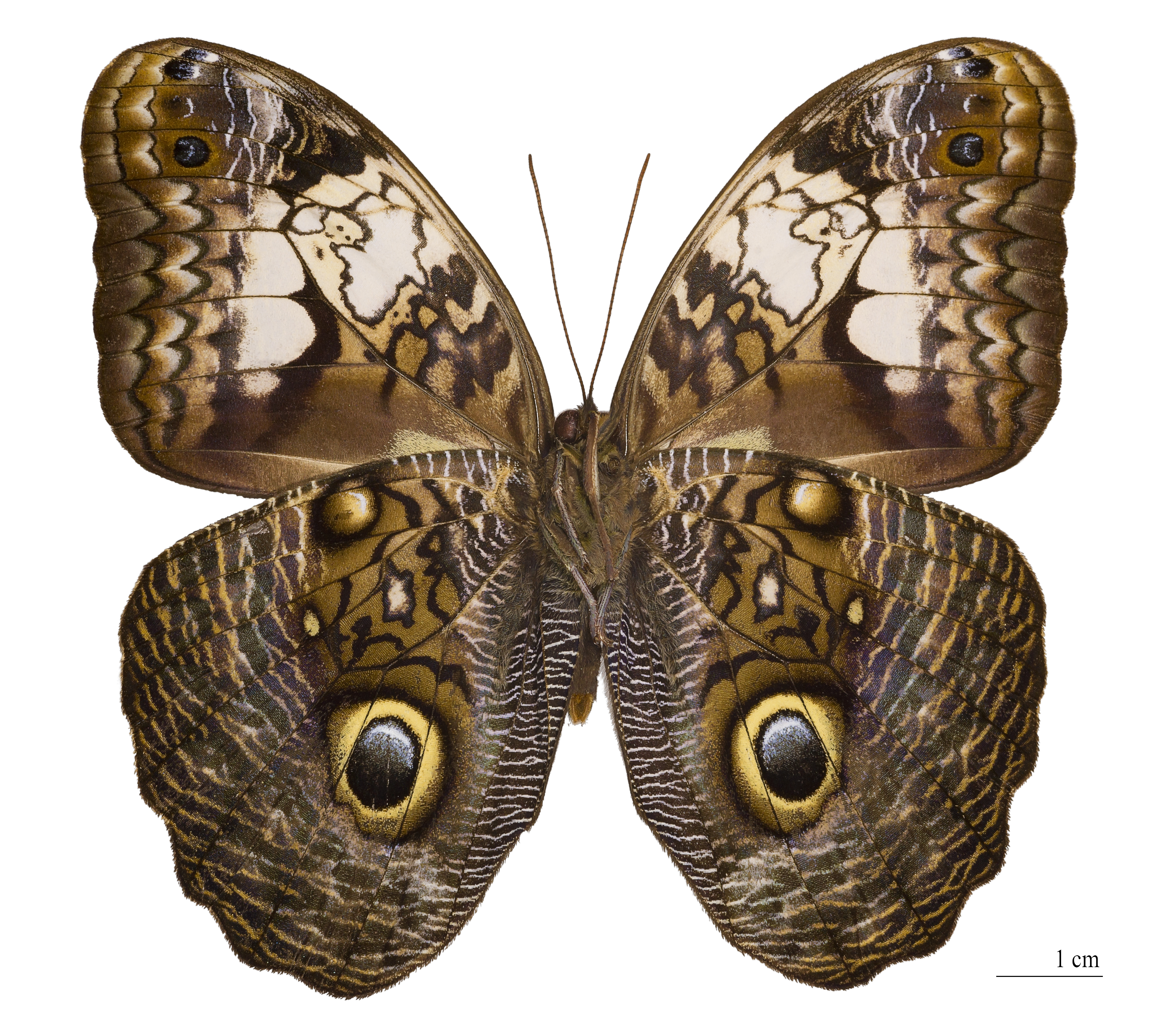 Male specimen - Ventral side Localité : São Bento do Sul, Santa Catarina, Brasil (TL)